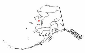 Adapted from Wikipedia's AK borough maps by Seth Ilys.